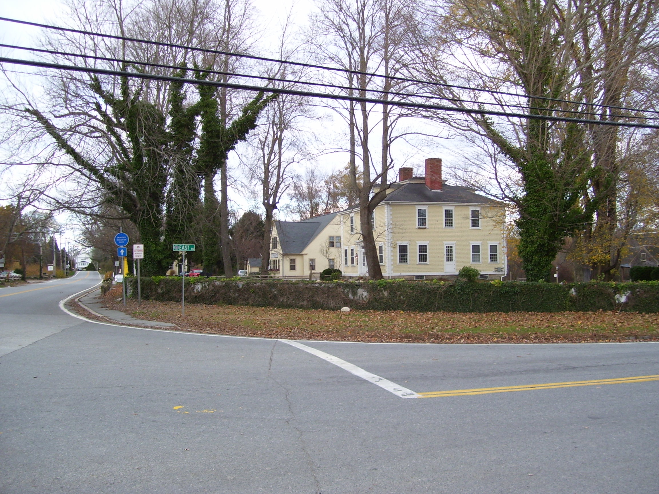 My 2008 photo of Tiverton Four Corners in Tiverton, Rhode Island.